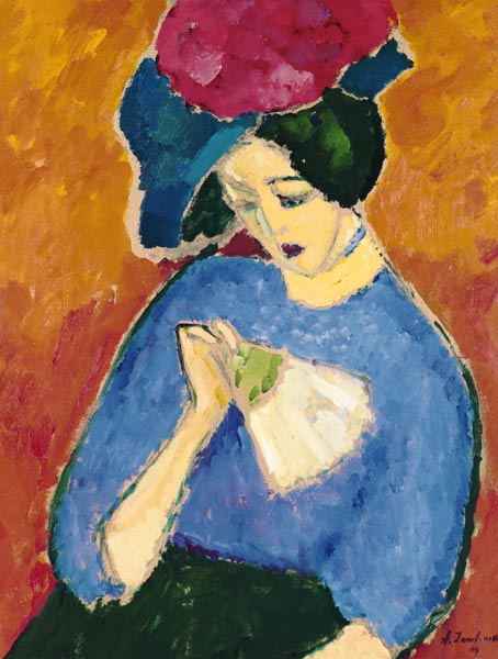 Alexej_von_Jawlensky